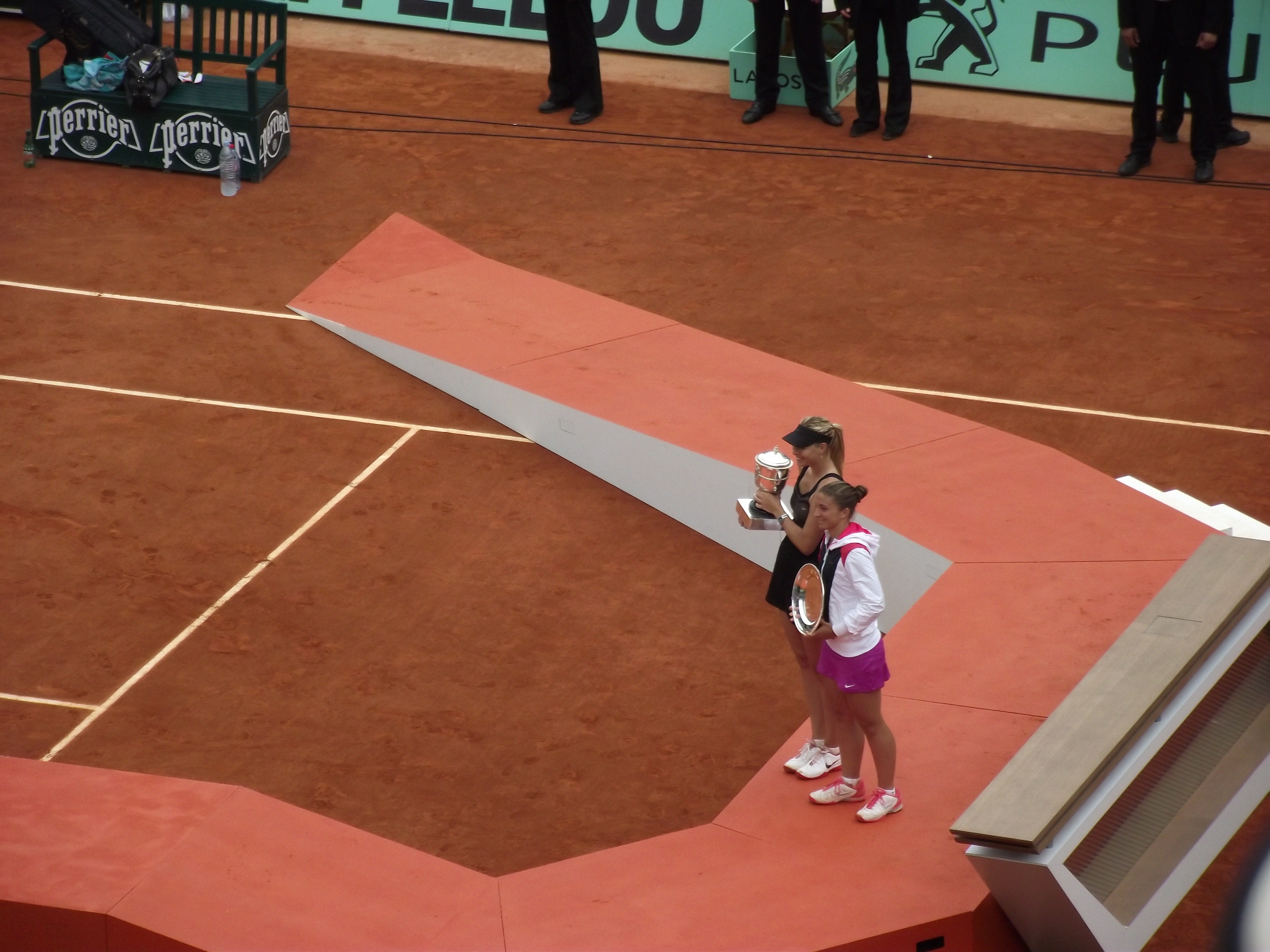 Italian Sara Errani & Russian Maria Sharapova at 2012 French Open. 2012 Roland Garros, Paris, France.